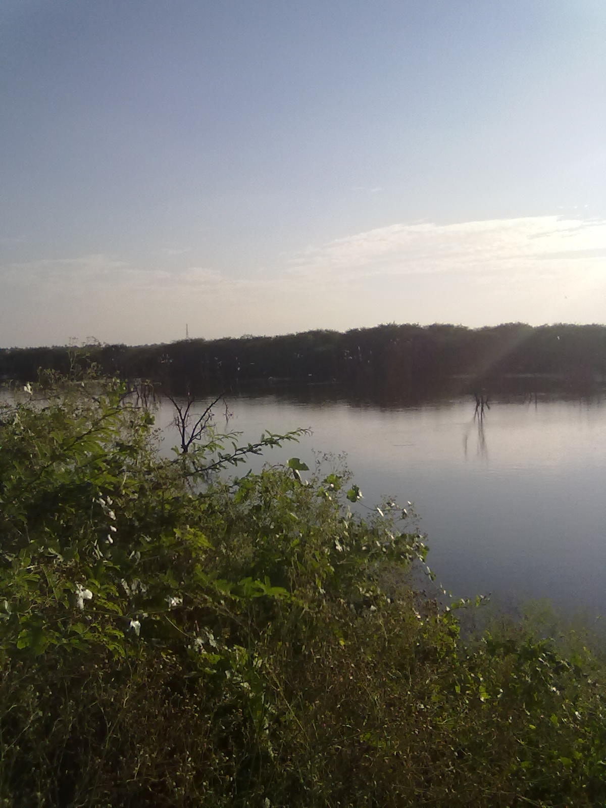 Vellalore Tank in 14 January 2011 , with water in it at evening time